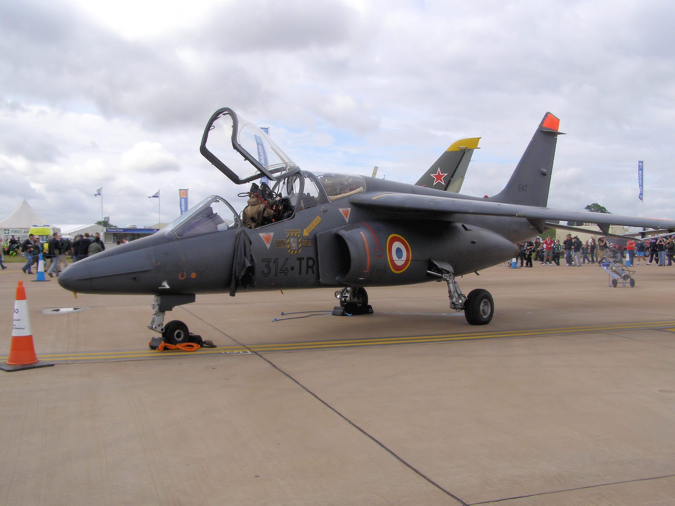 French Air Force Alpha Jet E47 at RAF Fairford, England